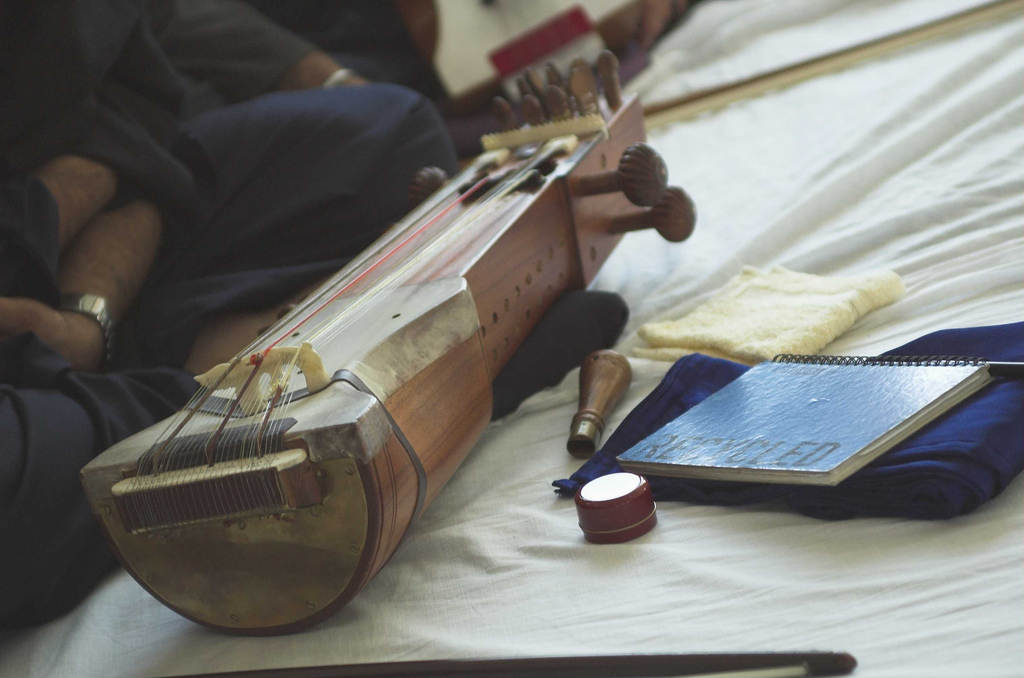 A lying sarangi